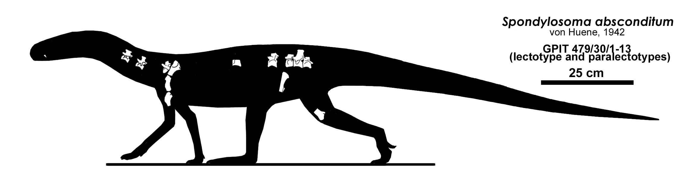 Skeletal reconstruction of Spondylosoma absconditum as an aphanosaur related to Teleocrater